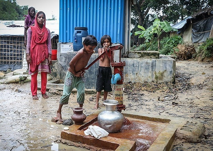 Rohingya displaced Muslims